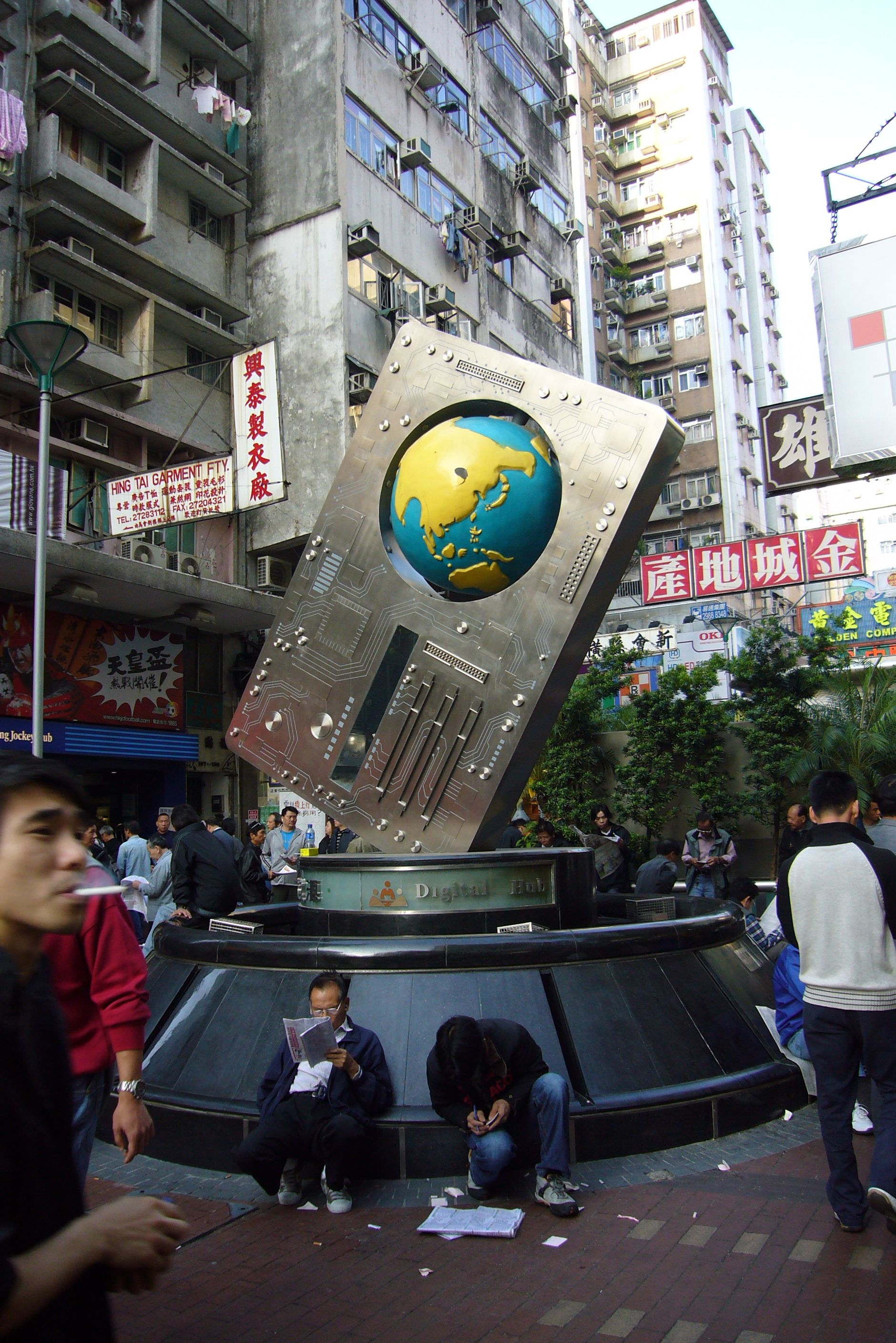 Digital Hub Logo in Kweilin Street, Sham Shui Po